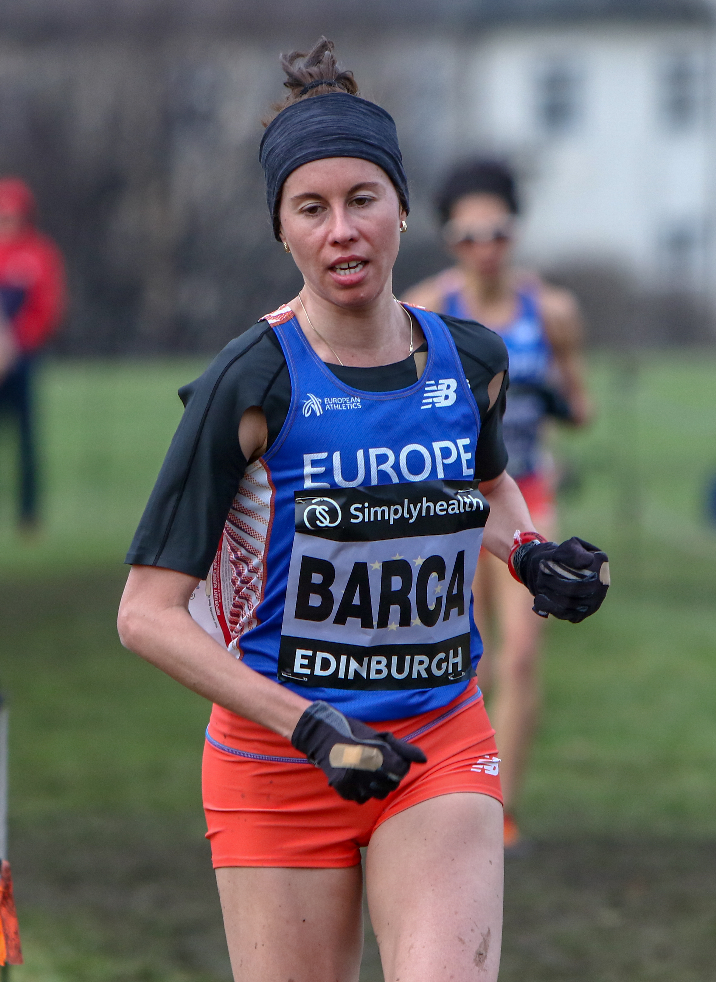 Great Edinburgh International Cross Country 2018 – Senior Women's 6km